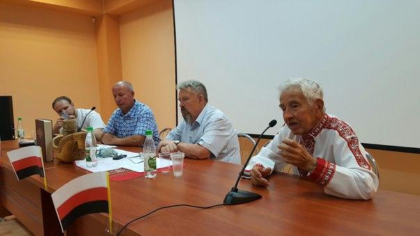 Says Chetvergov Evgeny Vladimirovich, member of the «Fund for Saving the Erzya Language». V Erzya Congress, Saransk, June 7, 2016